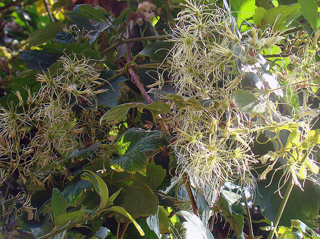 A clematis vine from near San Luis, Costa Rica. In context at